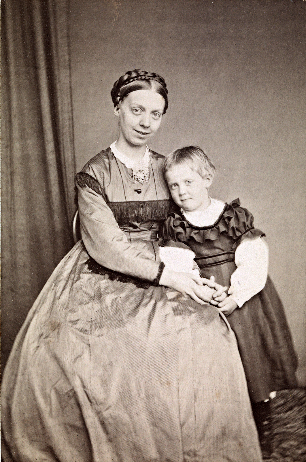 Tittel / Title: Fredrikke Qvam sammen med datteren Louise Gram Qvam Motiv / Motif: Visittkort. Dato / Date: ca 1870 Fotograf / Photographer: H. Krum (Trondhjem) Sted / Place: Sør-Trøndelag, Trondheim Eier / Owner Institution: Nasjonalbiblioteket / National Library of Norway Lenke / Link: Bildesignatur / Image Number: blds_04504